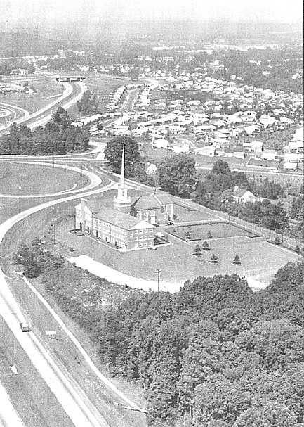 Aerial view looking west of Towson United Methodist Church in the 1960s, at the interchange of the Baltimore Beltway (Interstate 695, left side of photo) and Maryland Route 146, Towson, Maryland (U.S.)